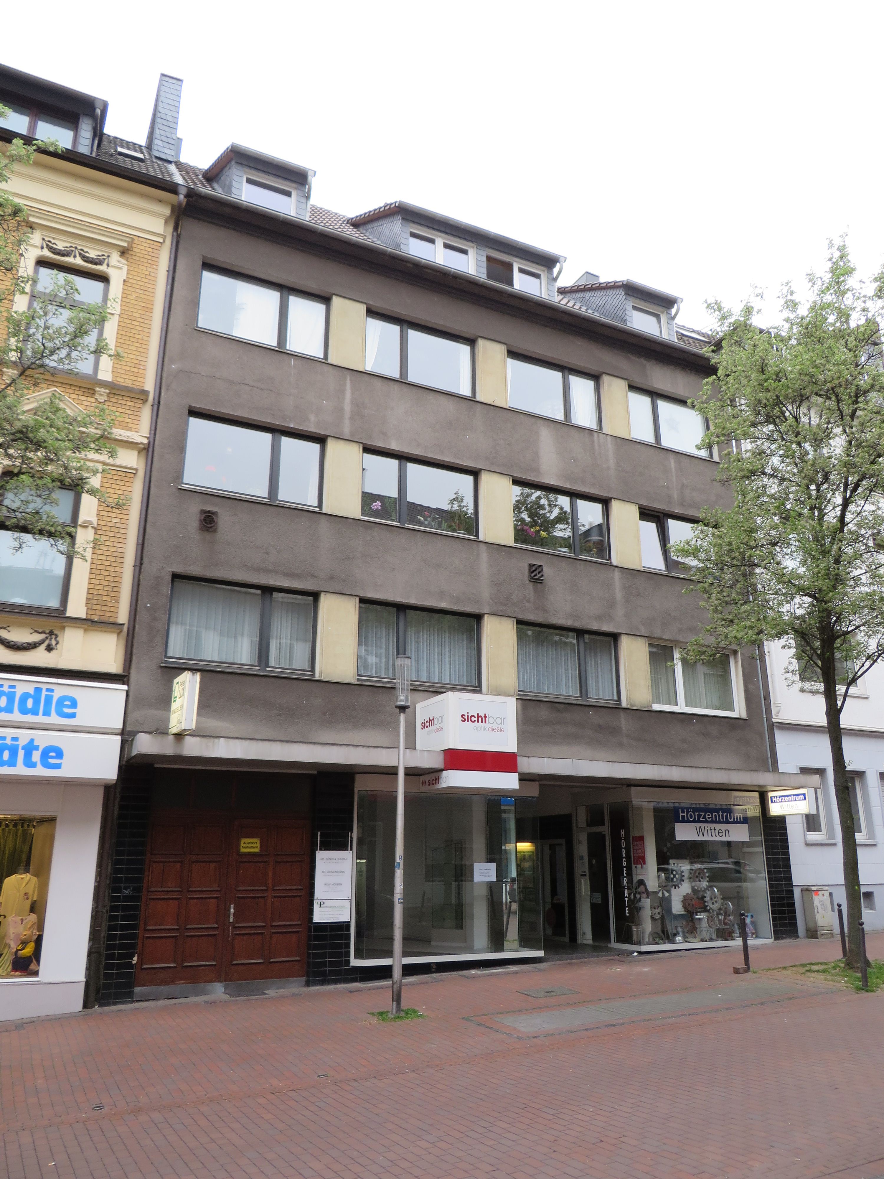 House Beethovenstraße 7 in Witten, Germany